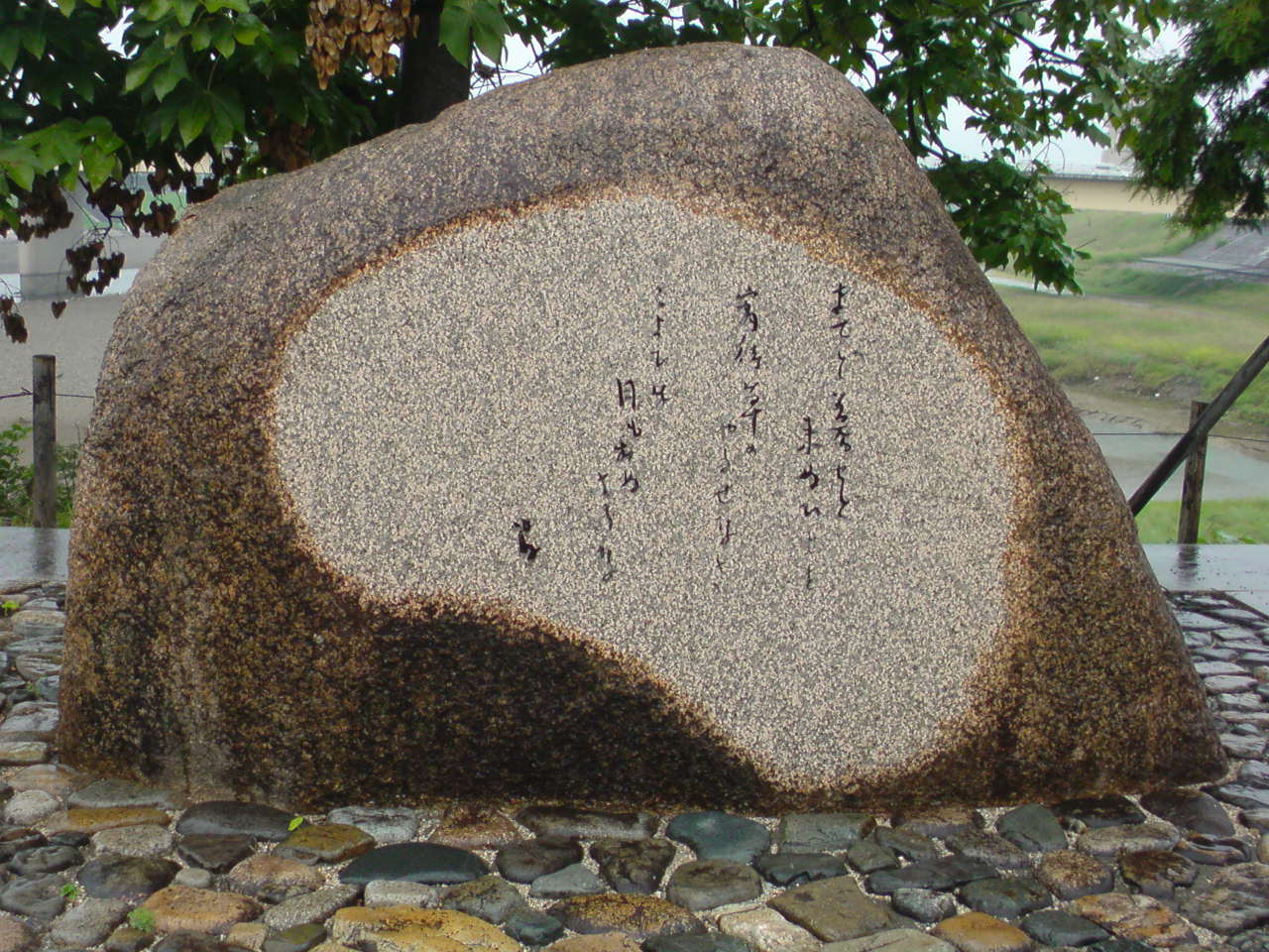 Statue of "Yoimachi-gusa" (宵待草), poems written by Yumeji Takehisa, a Japanese poet & painter 岡山市の後楽園入り口にある竹久夢二の「宵待草」の歌碑。「まてど暮せど来ぬ人を 宵待草のやるせなさ こよひは月も出ぬさうな 夢」